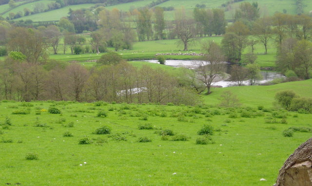 Afon Dyfrdwy. The a large kink in the river Dee as it meanders down the valley, near between Bala and Corwen.